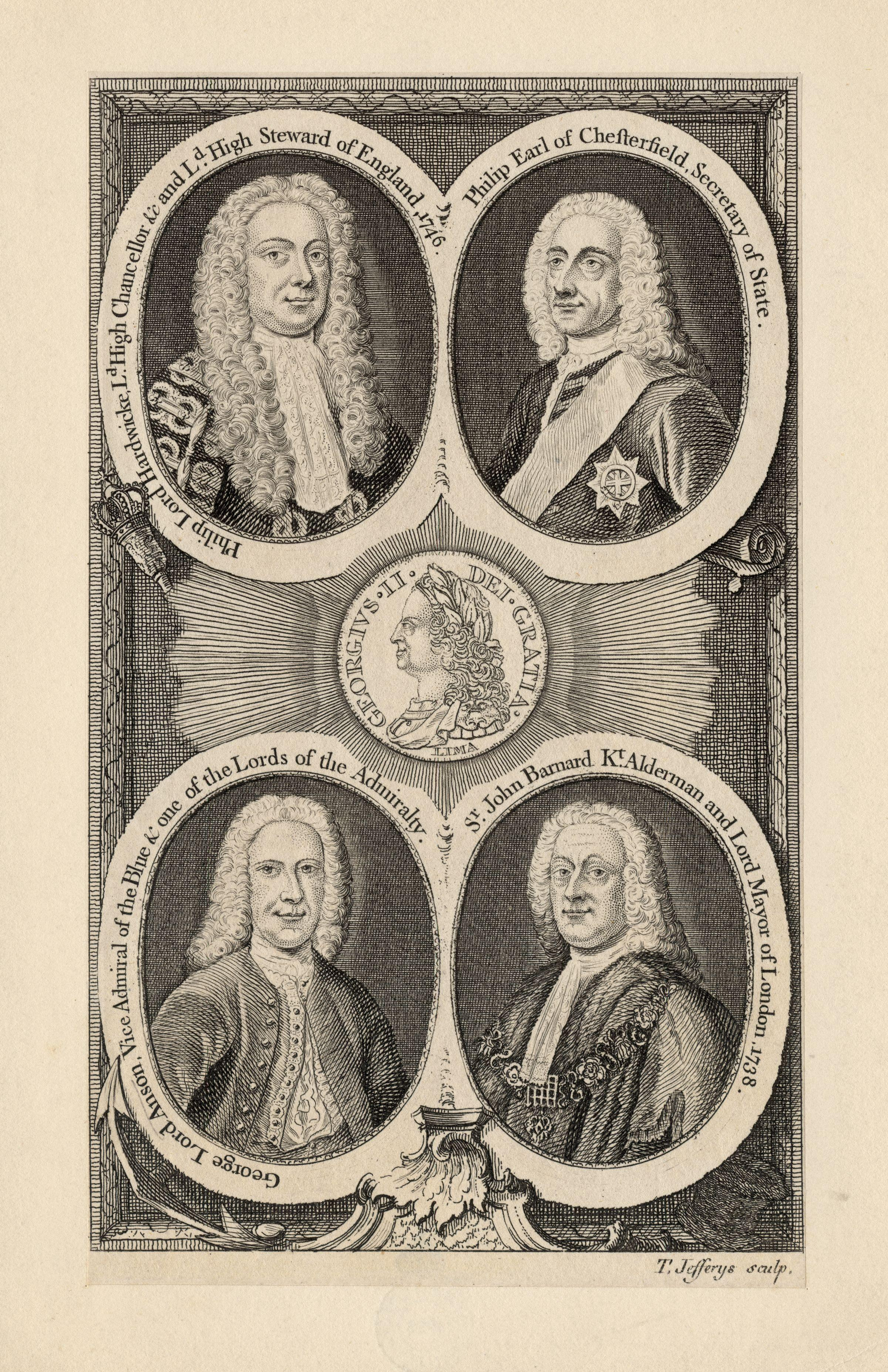 George II and his officials, by Thomas Jefferys (floruit 1759). Sitters George Anson, 1st Baron Anson (1697-1762), Admiral. Sir John Barnard (1685-1764), Lord Mayor of London. Philip Dormer Stanhope, 4th Earl of Chesterfield (1694-1773), Statesman. King George II (1683-1760), Reigned 1727-60. Philip Yorke, 1st Earl of Hardwicke (1690-1764), Lord Chancellor. All images in this batch have a known author with unknown death date, but according to the NPG's website the author was floruit (known to be active) prior to 1859, and so is reasonably presumed dead by 1939.